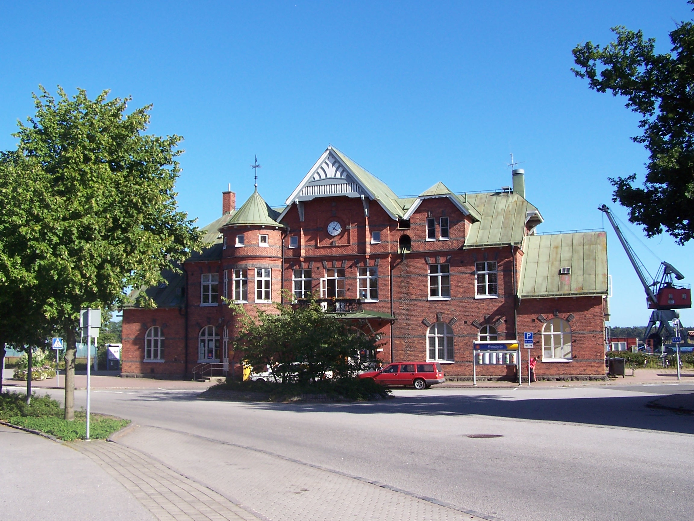 Sölvesborg Train station , Sölvesborg, Sweden